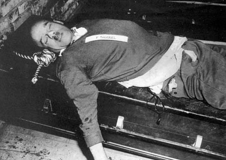 The body of Fritz Sauckel after being hanged, Oct. 16, 1946.